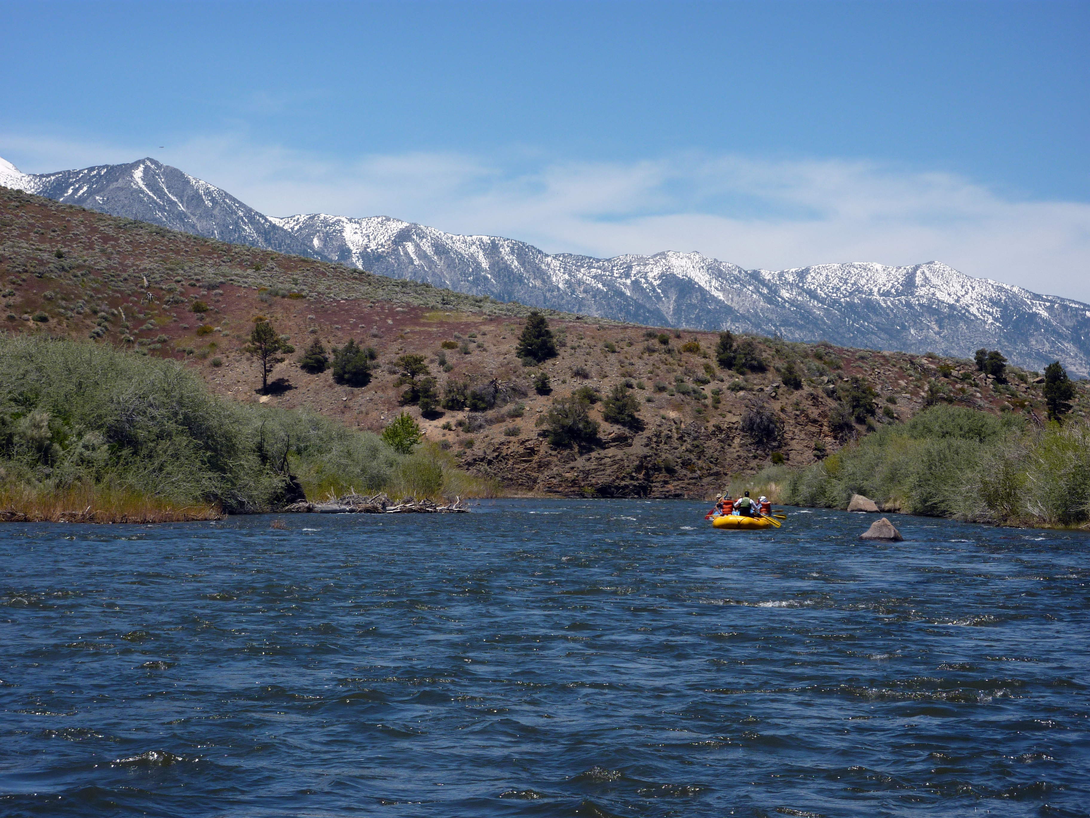 East Fork Carson River, Nevada, California, Whitewater Rafting